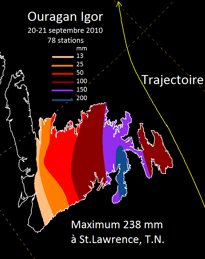 Hurricane Igor of 2010 began as a tropical pertubation of the West Coast of Africa. It moved on a trajectory well of the coeast aif the Carabians toward Bermuda and eventually reached the Southearten tip of Newfounland in Canada. This map shows the amounts of rain left by the Hurricane over that Canadian province. Data are from Environment Canada and the image is produced by the the Hydrometeorological Prediction Center of the US National Weather Service